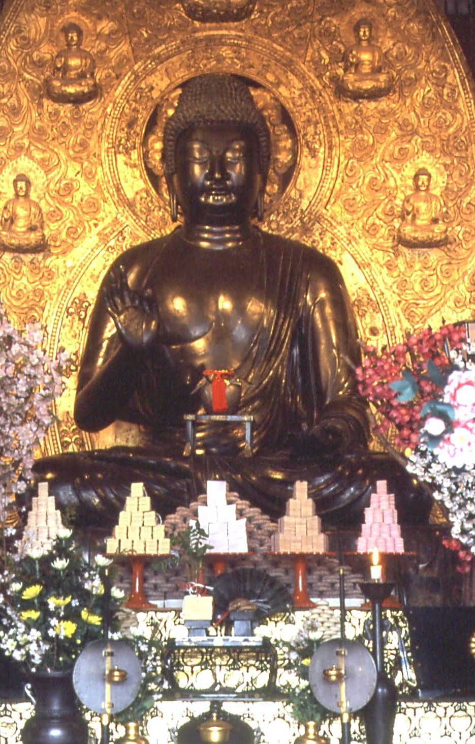 Yakushi Nyorai, end VII c. Yakushi-ji, Nara